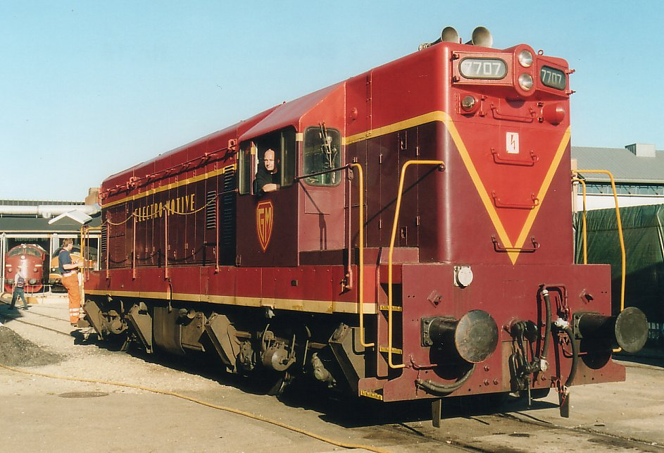 GM-Gruppen's G12 7707, former SJ T5 105 (1956-1958), T5 205 (1958-1964), T42 205 (1964-1983), in Odense. Between 1986 and 2007 this locomotive was owned by the Norwegian GM-Gruppen.